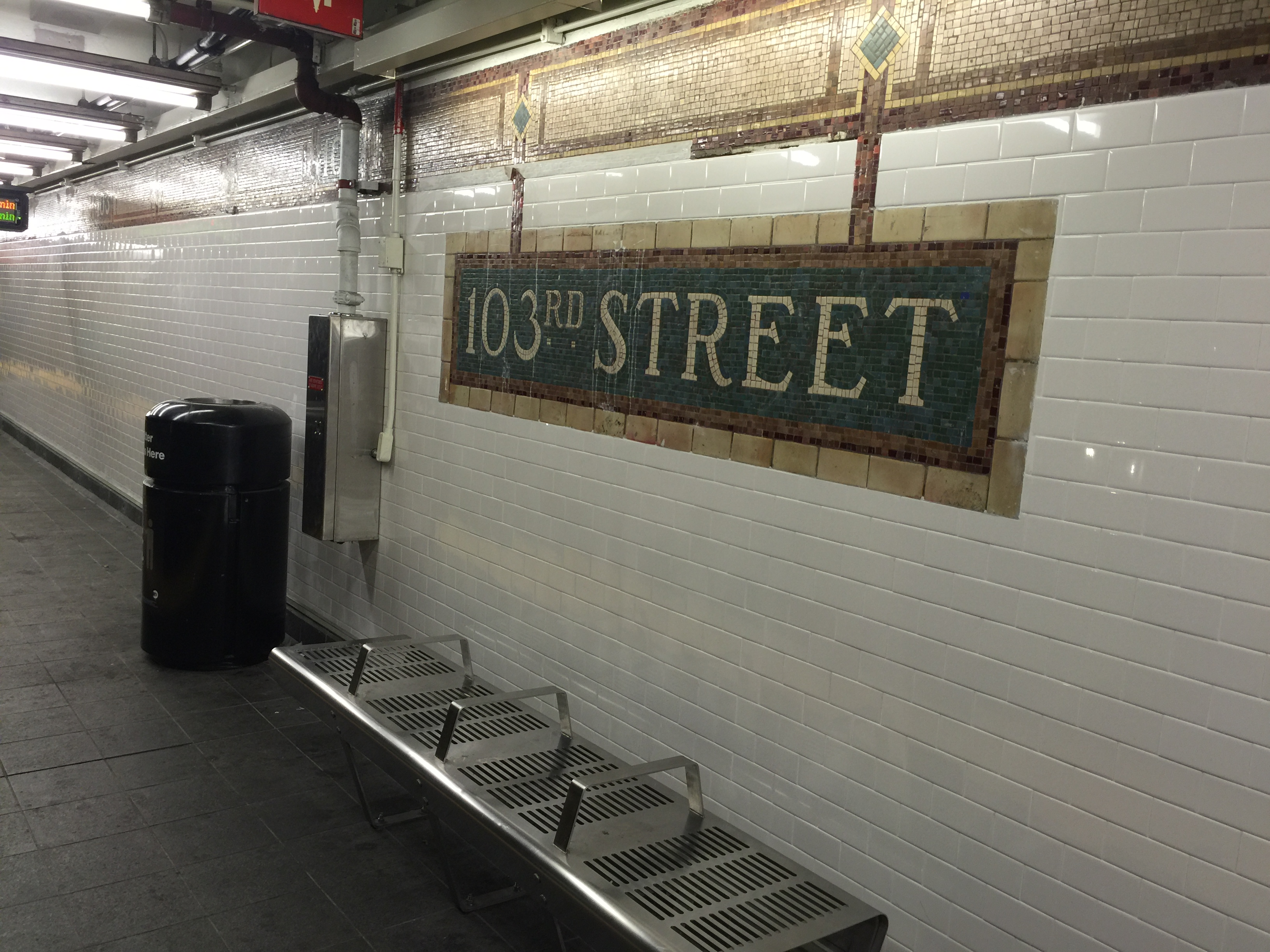 Southbound platform after 2015 renovation